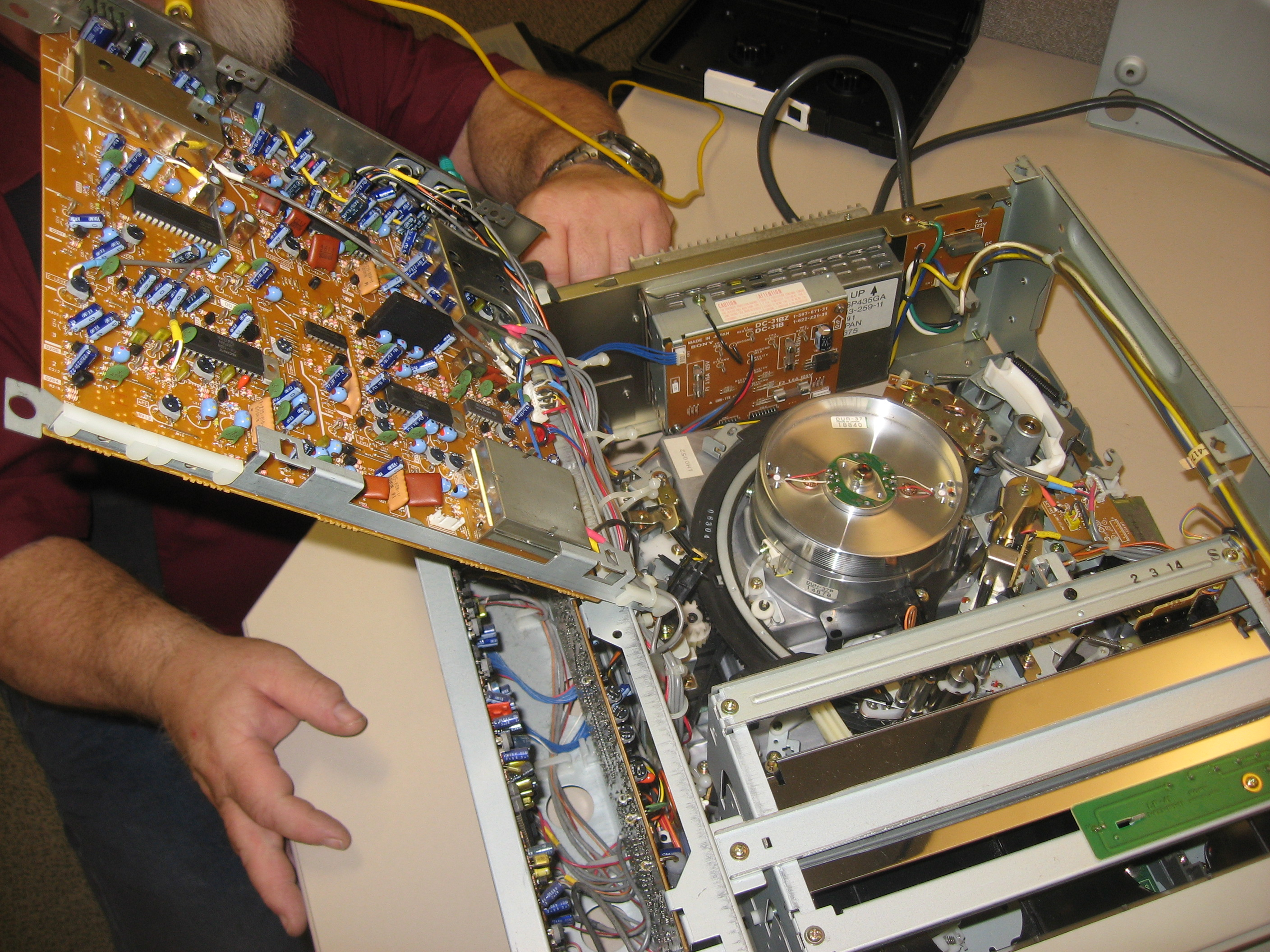 Interior (seen from top) of a U-matic video player, owned by Indiana University Bloomington in the United States. Machine was under repair at the time of the photograph; the repairman's arms are visible at top and right. According to the repairman, the machine was assembled in a New Jersey plant, seemingly in the early 1980s.